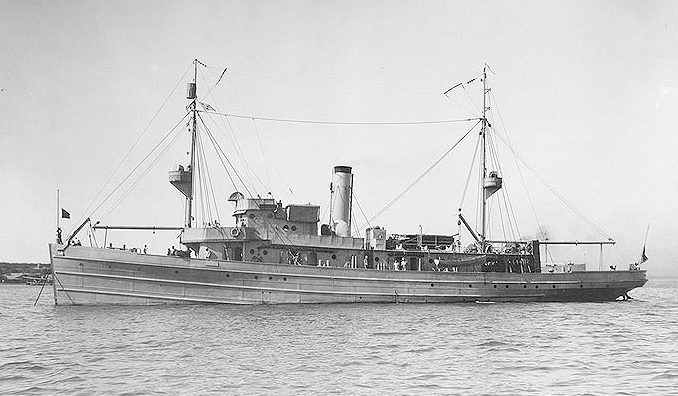 Anchored in Guantanamo Bay, Cuba, January 1920. U.S. Navy photo NH 43603.